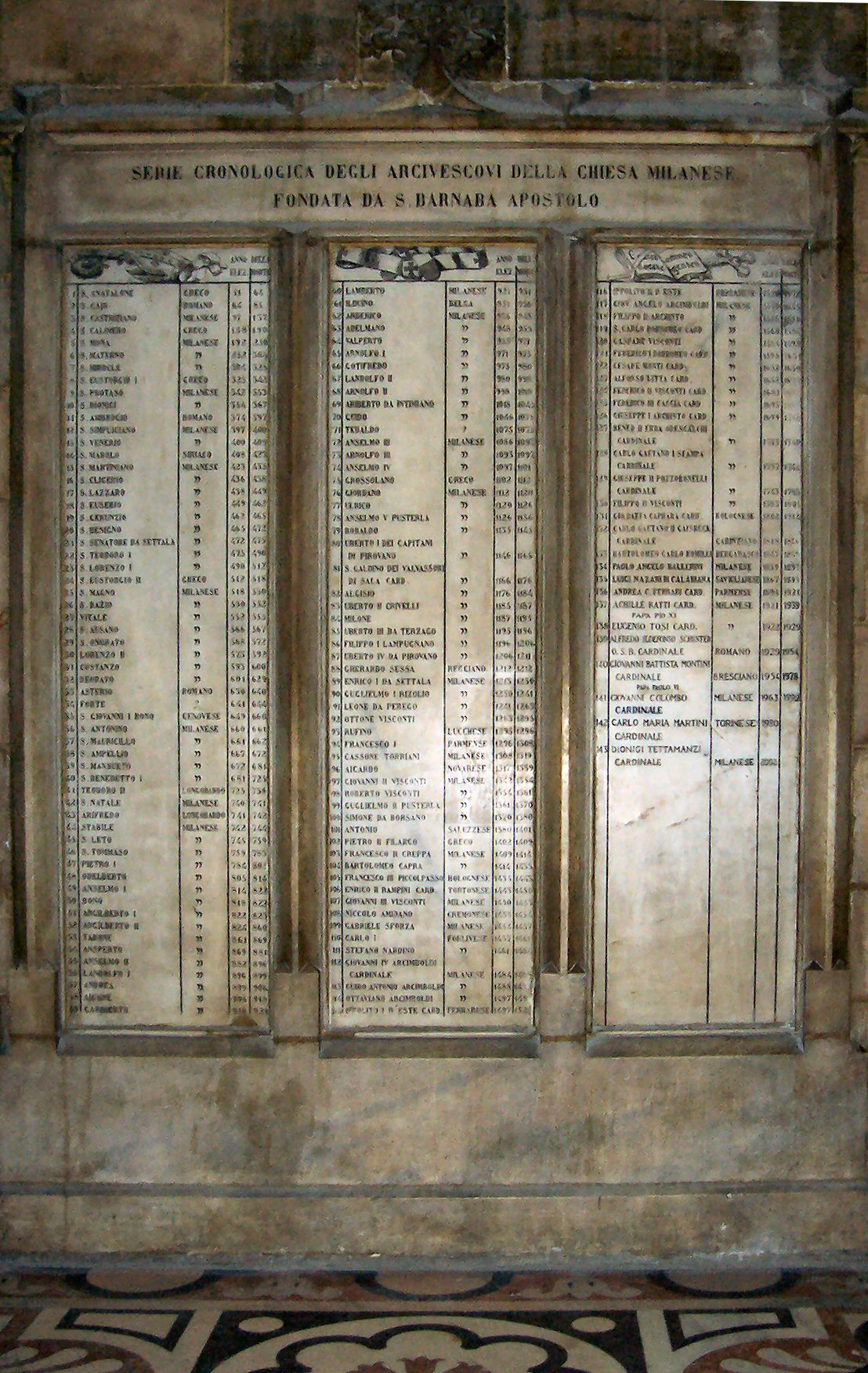 Plaque listing all Archbishops of Milan, inside the Duomo (cathedral). Author: Marco Bonavoglia.